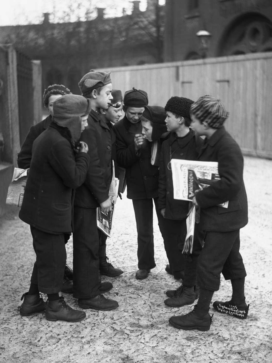 Newsboys having a smoke, Oslo 1905.